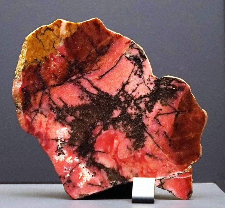 Polished rhodonit in Naturmuseum Augsburg. From Australia.This photograph was taken with a Sony ILCE-5000